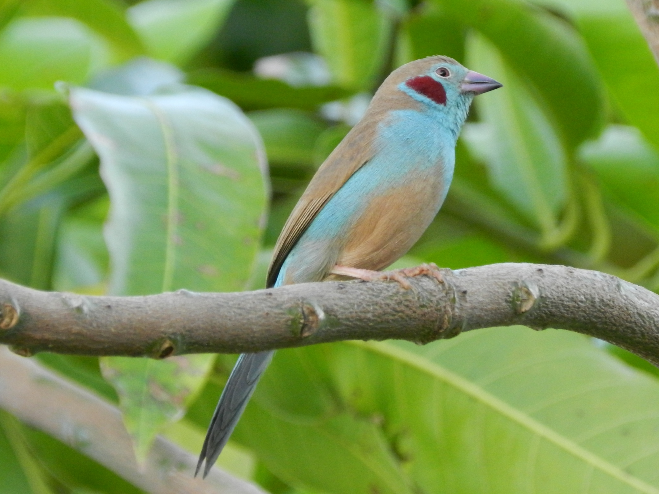 N'djamena, Chad